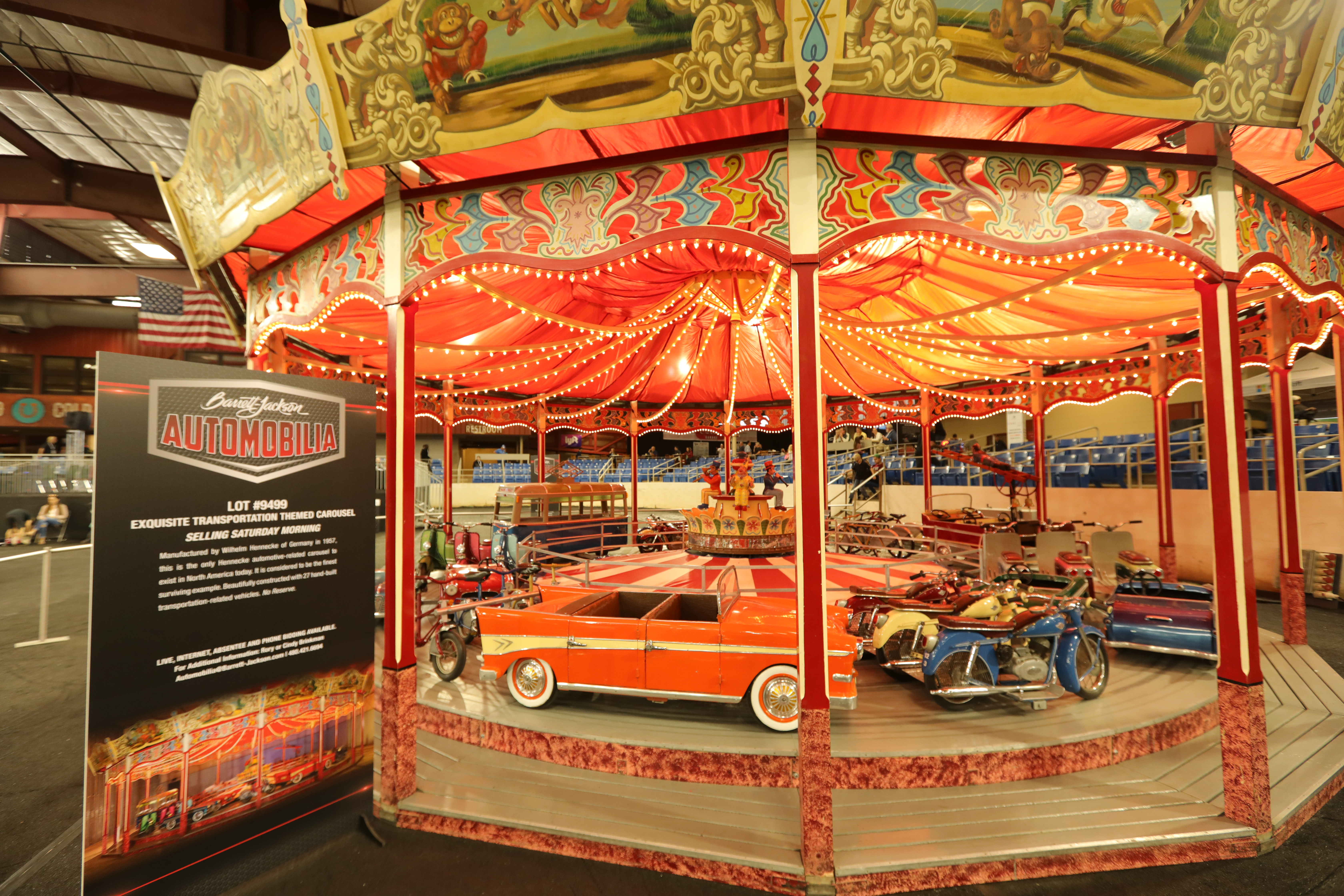 A full-size transportation-themed carousel (Lot #9499) sold for $557,750 at the 2018 Scottsdale Auction.